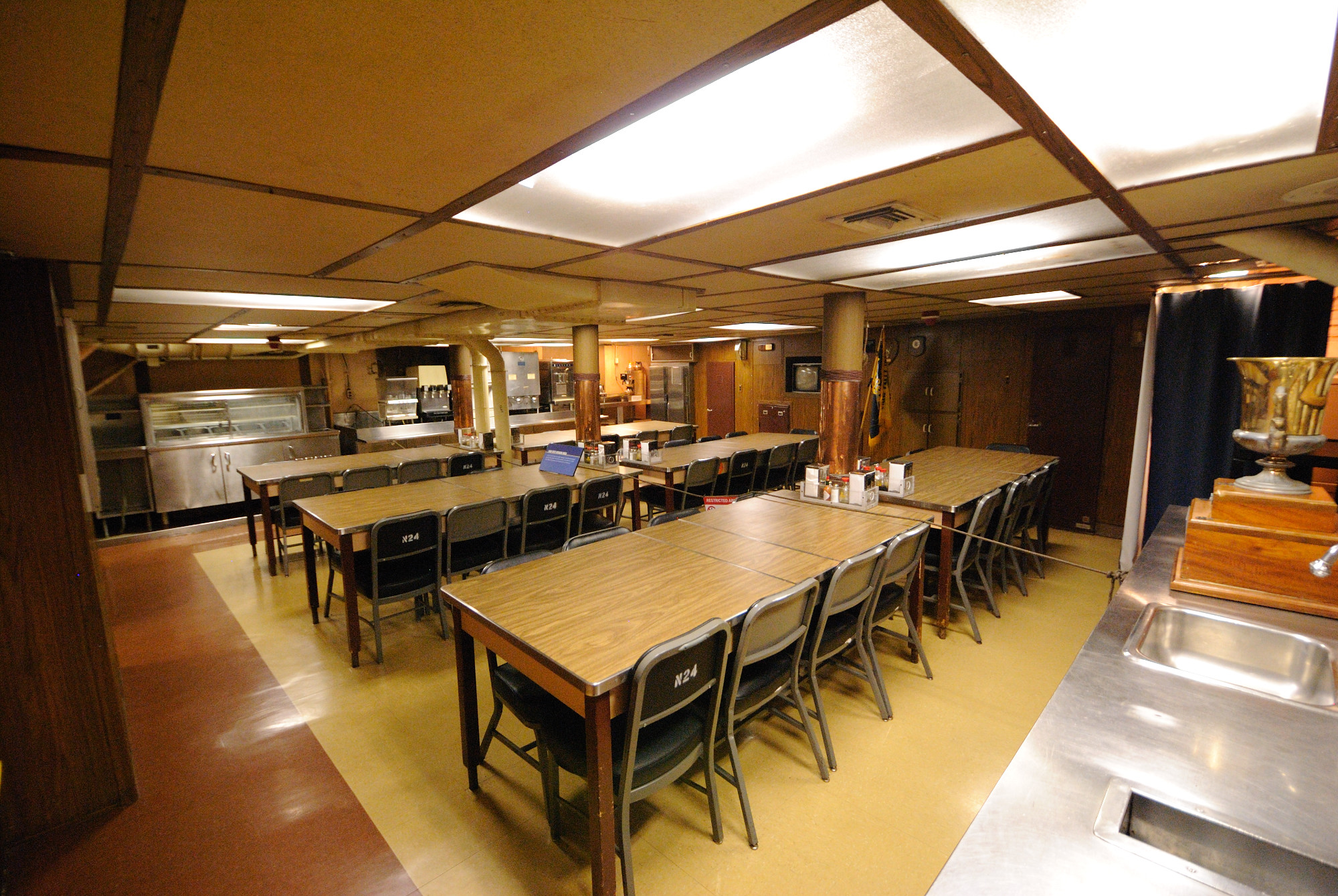 USS Missouri - Chief Petty Officer's Mess